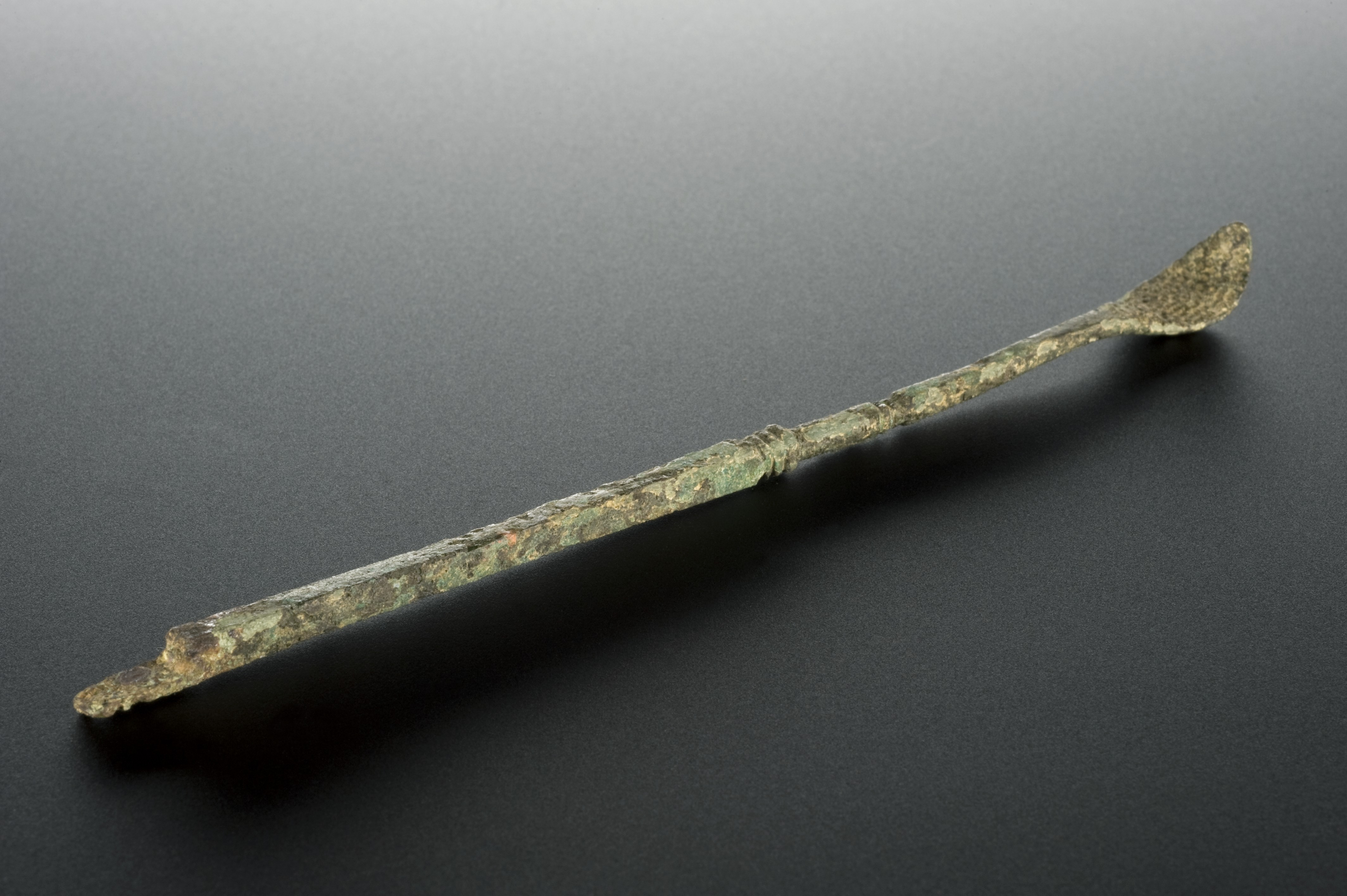 It is thought that the roughened end of this scoop was used to feel around the bladder for stones. The removal of stones from the bladder is called lithotomy and it can be an incredibly painful process. The other end of this scoop has a groove which may have been used to hold a knife. The instrument is made from bronze, the metal of choice for surgical and medical instruments until the introduction of iron and steel in the 500s and 600s CE, metals which gave a better cutting edge. maker: Unknown maker Place made: Roman Republic and Empire Wellcome Images Keywords: lithotomy; scoop; stone